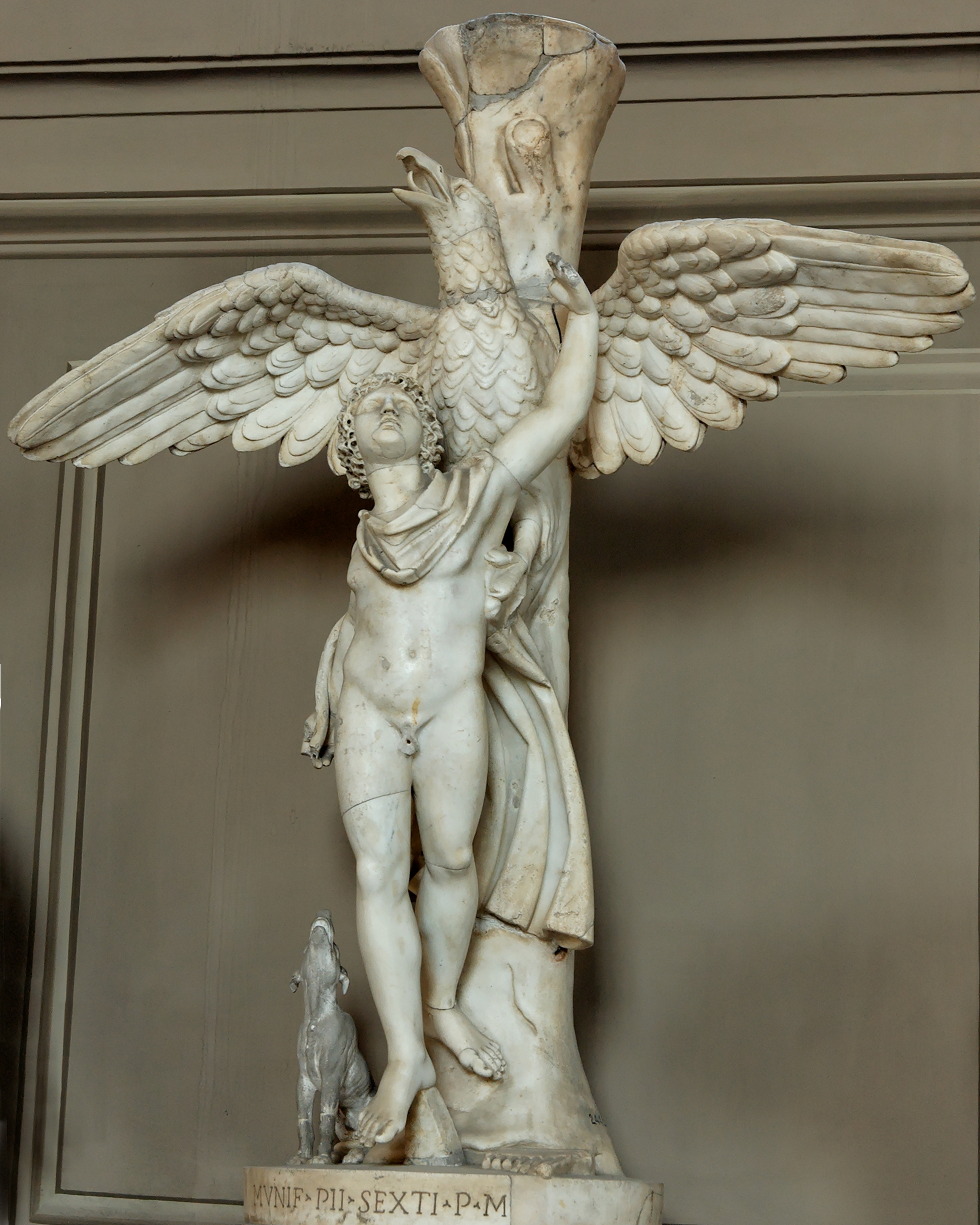 Ganymede carried off by the eagle. Marble, Roman copy after a bronze original from ca. 325 BC.